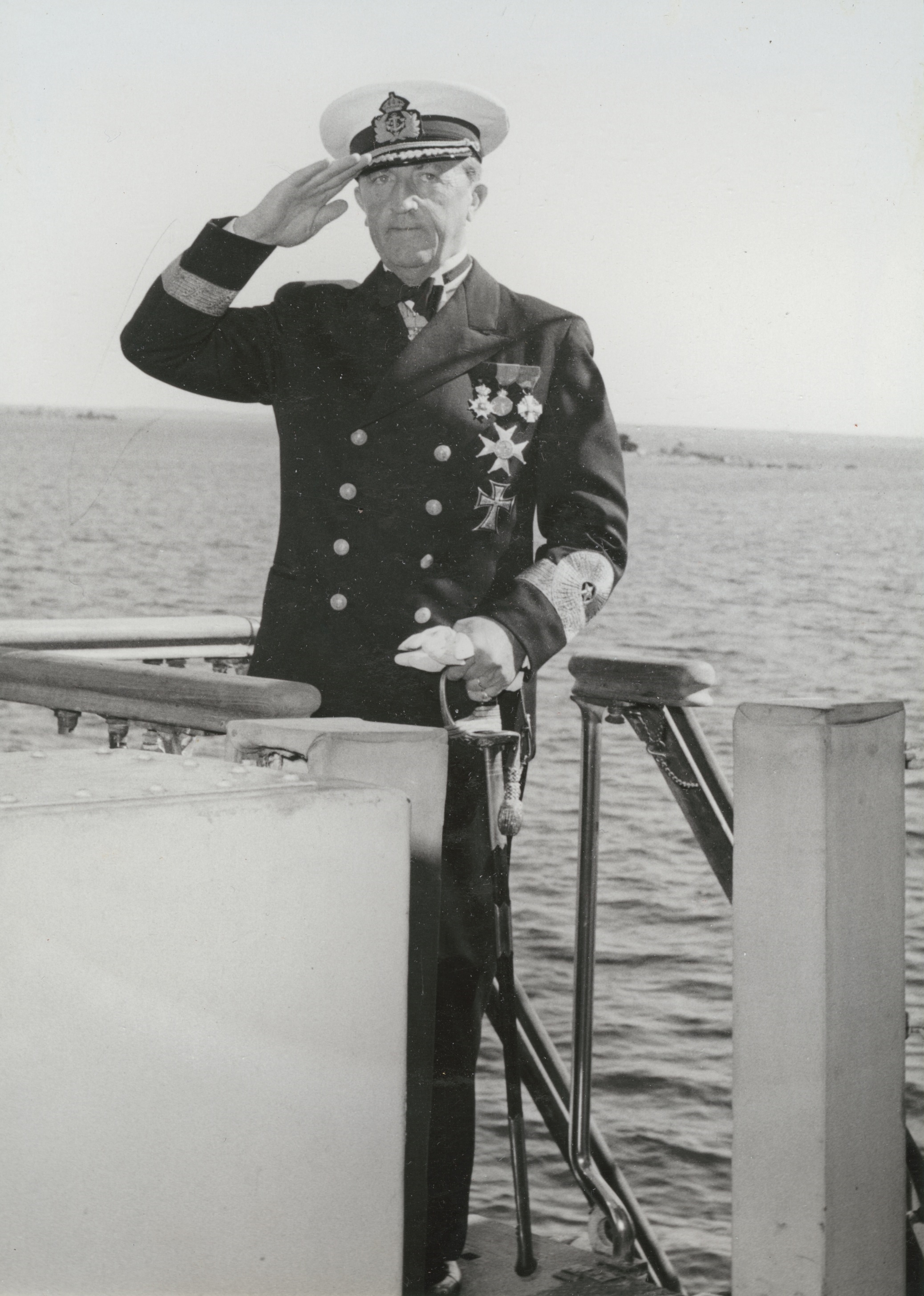 Rear admiral (vice admiral in 1958) Erik Samuelson IDENTIFICATION NUMBER D 11085:7:158